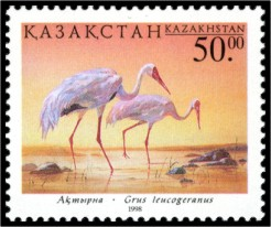 Stamp of Kazakhstan